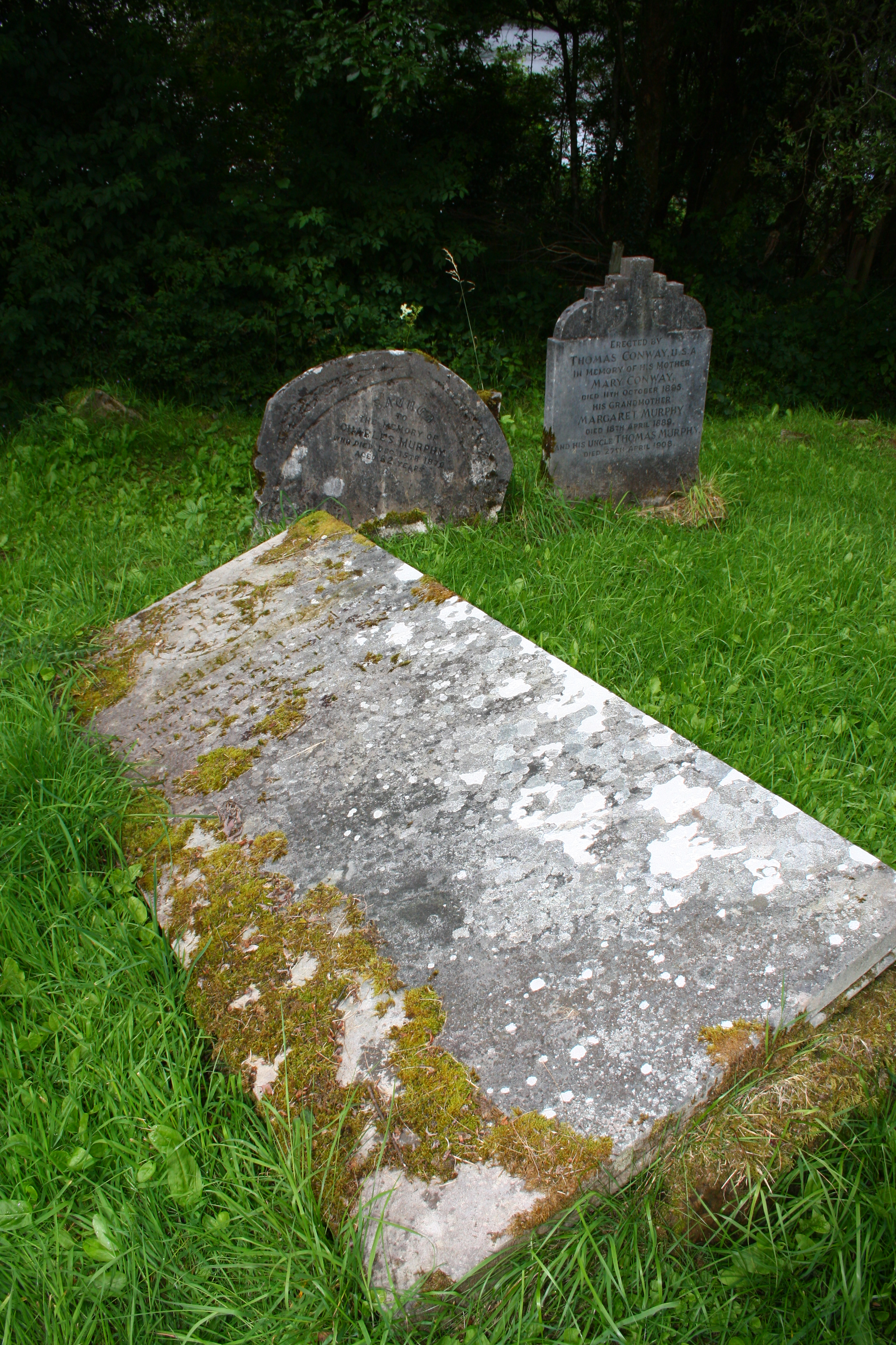 Gravestone 2